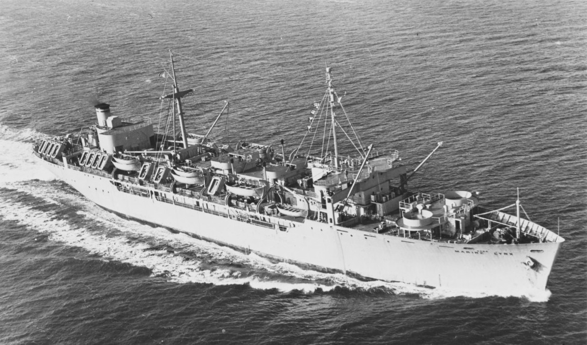 USNS Marine Lynx (T-AP-194) Underway during the 1950s. Photographed by Wood. The original image is printed on a postcard published by the Military Sea Transportation Service (MSTS) for sale in its ships' stores.